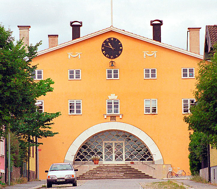 District court house in Sölvesborg (Swedish: Listers härads tingshus) (1917-1921), designed by architect Gunnar Asplund. Photographer: Wigulf